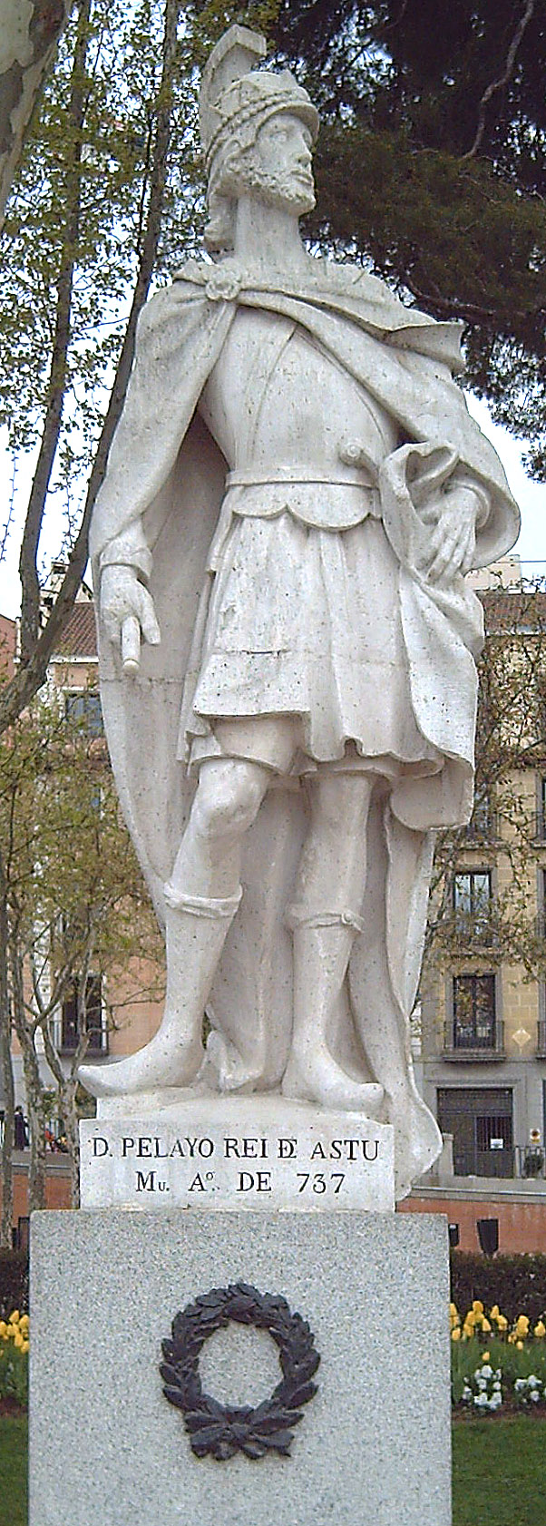 Statue of Pelayo I of Asturias († 737) at the Plaza de Oriente (square) in Madrid (Spain). Sculpted in white stone by Domingo Martínez between 1750 and 1753.